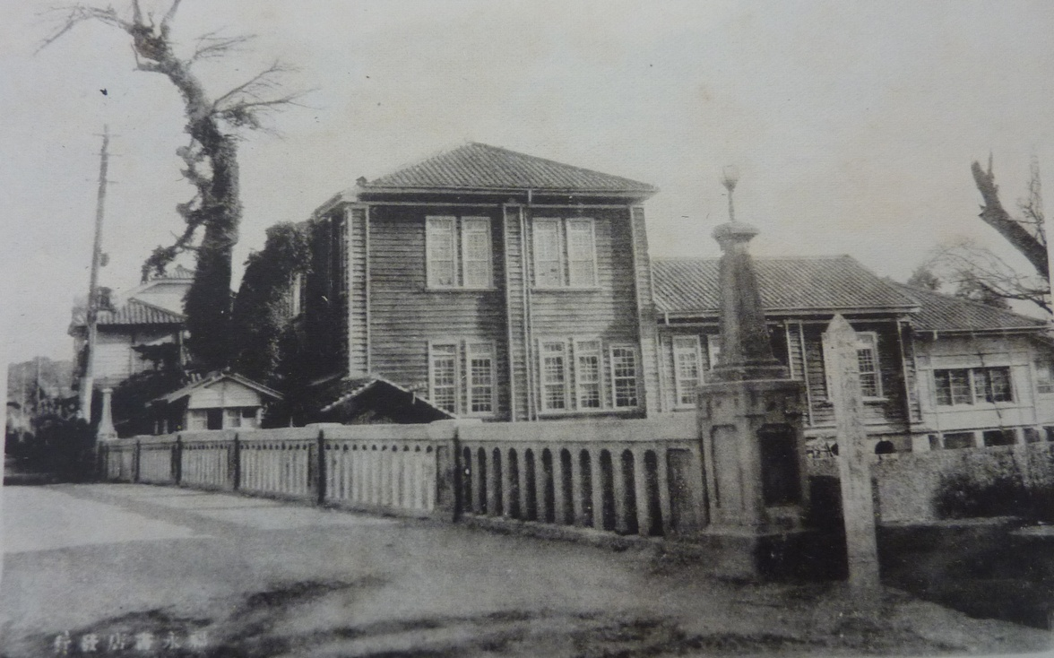 Kanoya Town Office in 1939 (Present Kanoya City, Kagoshima Prefecture, Japan)